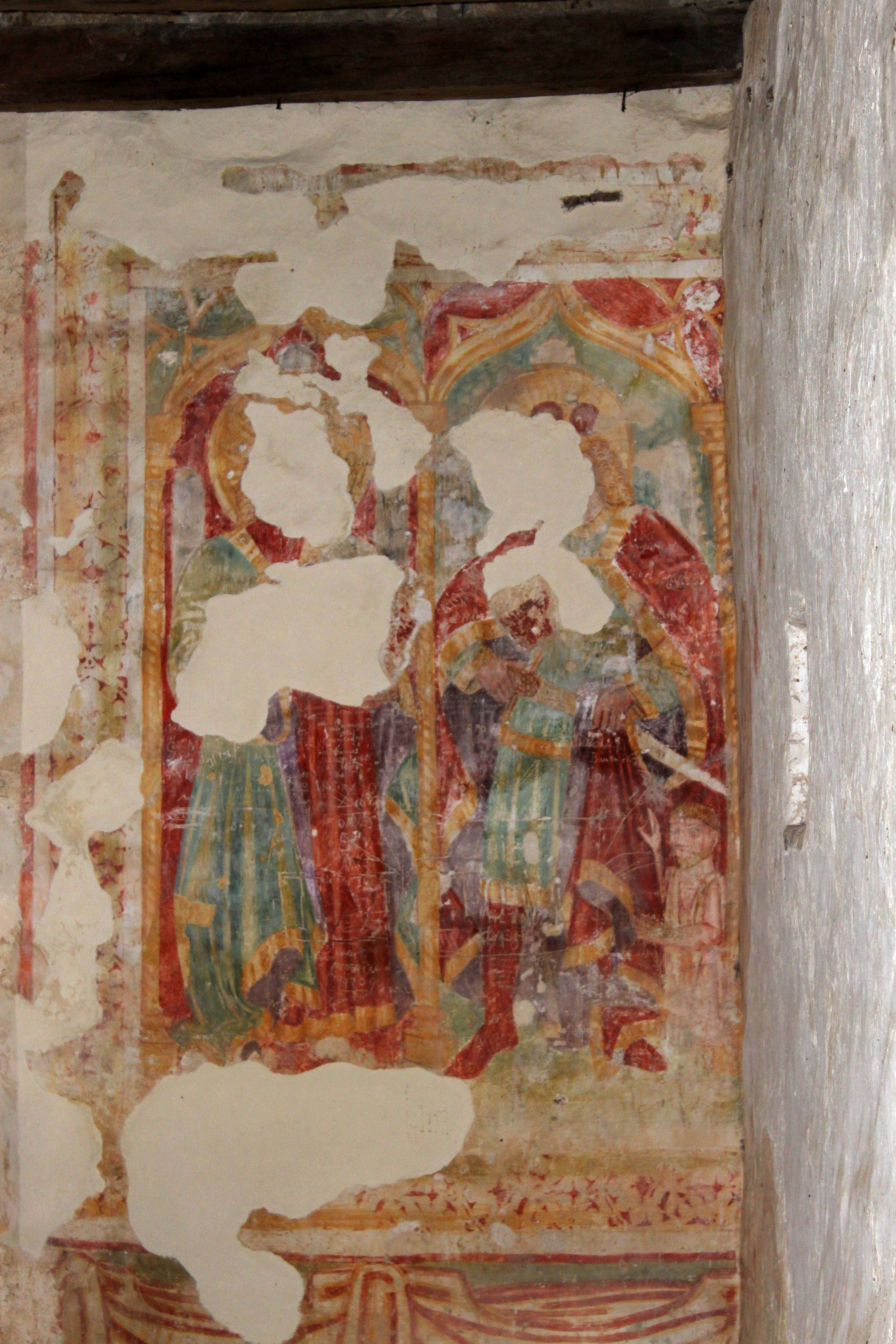 St. Anthony Abbot's Church in Dvigrad, Croatia. Frescoes